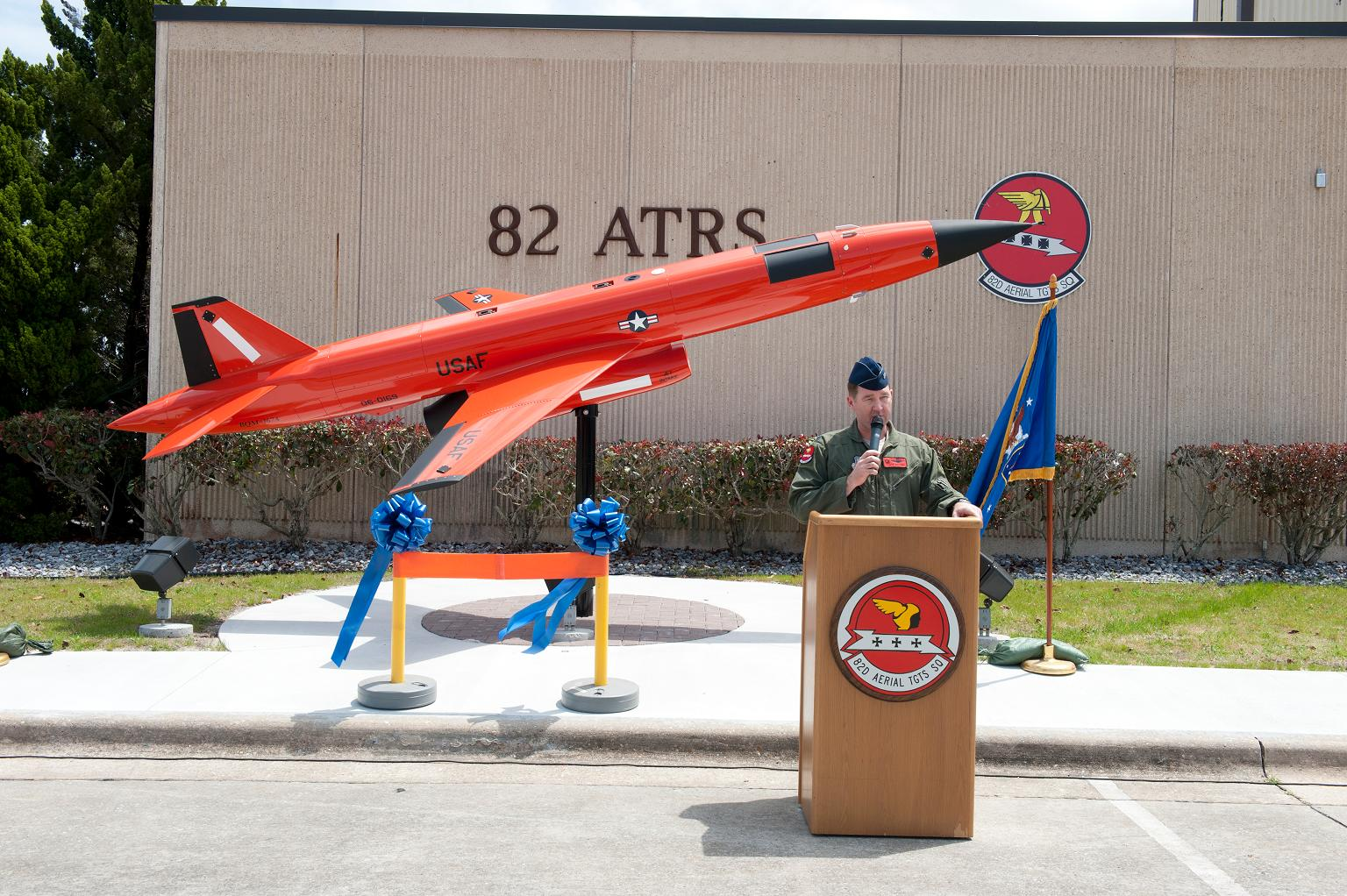 Lt Col Lance Wilkins, 82d Aerial Targets Squadron commander, speaks at the dedication ceremony of the BQM-167 Skeeter display. The workhorse of air-to-air testing and evaluation is this Subscale Aerial Target. A reusable target, the drone can be either land or water recovered. Over the life of the BQM-167 program over 1650 weapons have been employed against only 202 of these targets. This display was dedicated on April 15, 2013 to commemorate the 60th anniversary of the last time an American serviceman was killed by an enemy air attack. Magic Man Download Full Image E-mail a friend Posted: 4/8/2013 Magic Man Magic Man Download Full Image E-mail a friend Posted: 4/8/2013